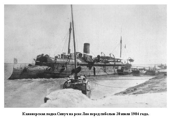 The Imperial Russian Bobr class gunboat Sivuch (I).